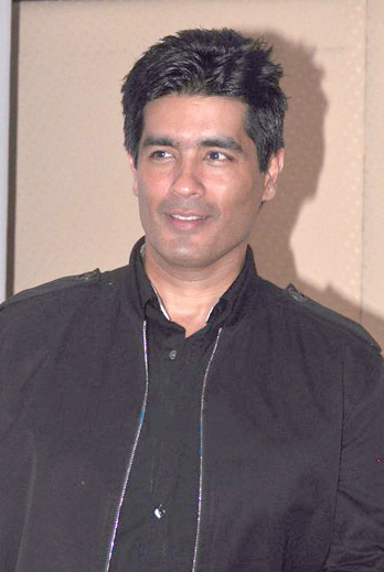 Manish Malhotra at WIFT's felicitation